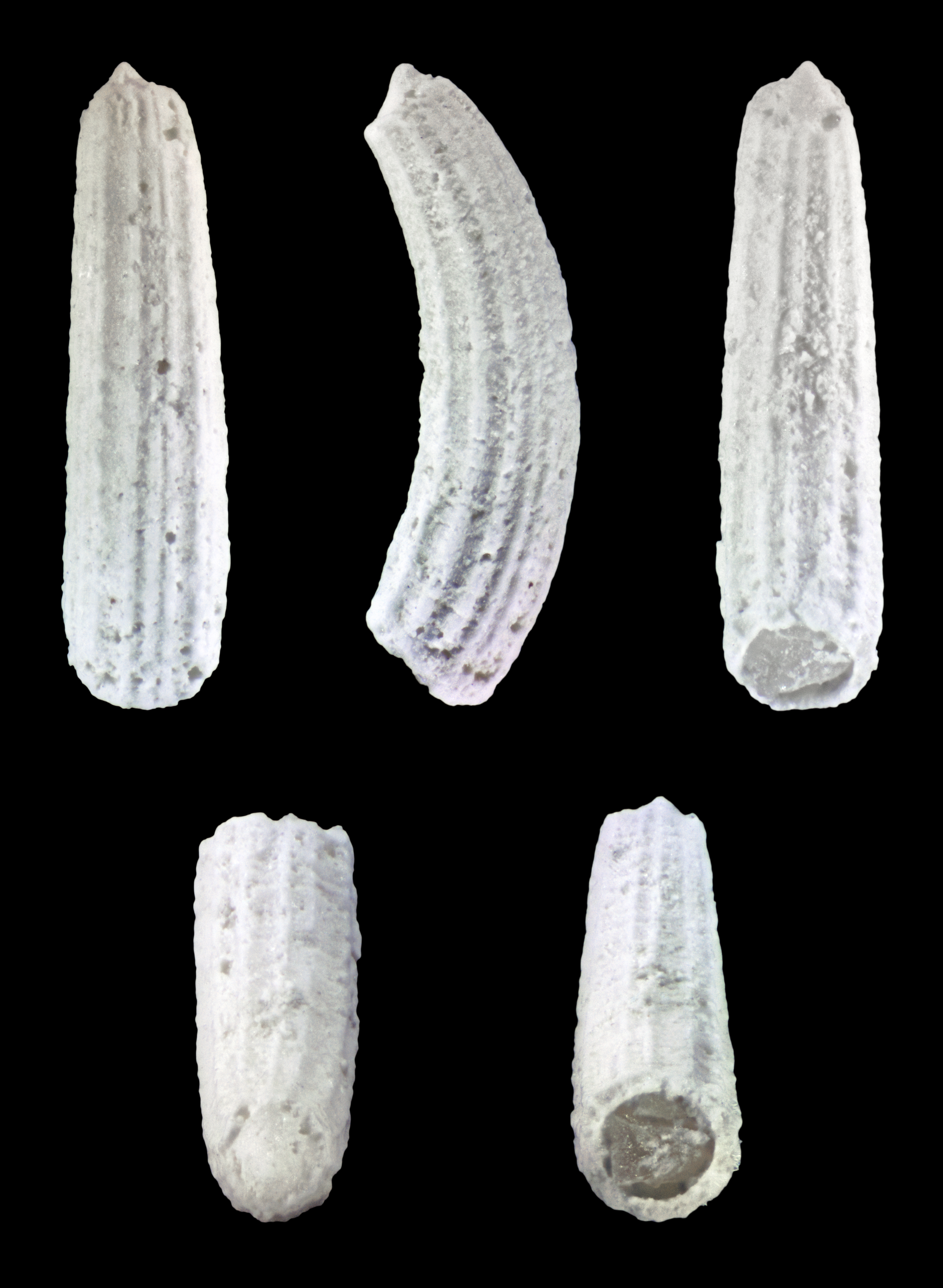 Caecum cycloferum Folin, 1867; Length 0.22 cm; Tertiary, Pliocene, LaBelle, Florida, USA; Shell of own collection, therefore not geocoded.